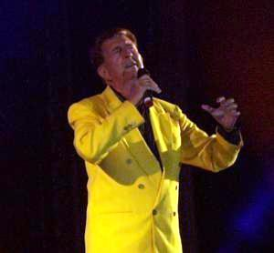 Mário Gil, a portuguese/brazilian singer.